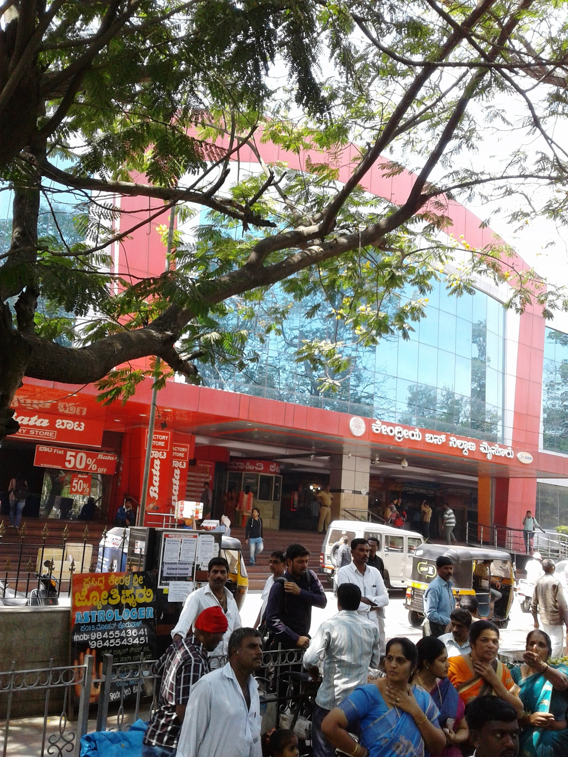 Mysore city, Karnataka state, India.